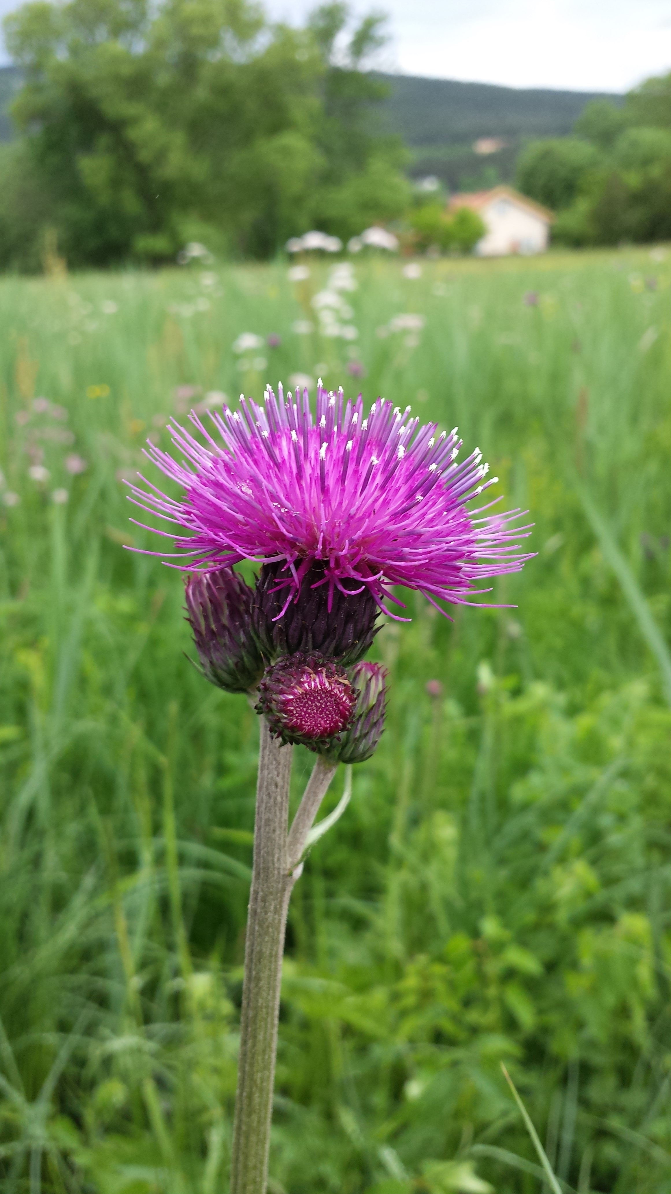 Florescence Taxon: Cirsium rivulare (sensu Fischer et al. EfÖLS 2008 ISBN 978-3-85474-187-9; det. M. A. Fischer 2013-05-18) Location: Brunn an der Schneebergbahn, district Wiener Neustadt, Lower Austria - ca. 300 m a.s.l. Habitat: wet meadows